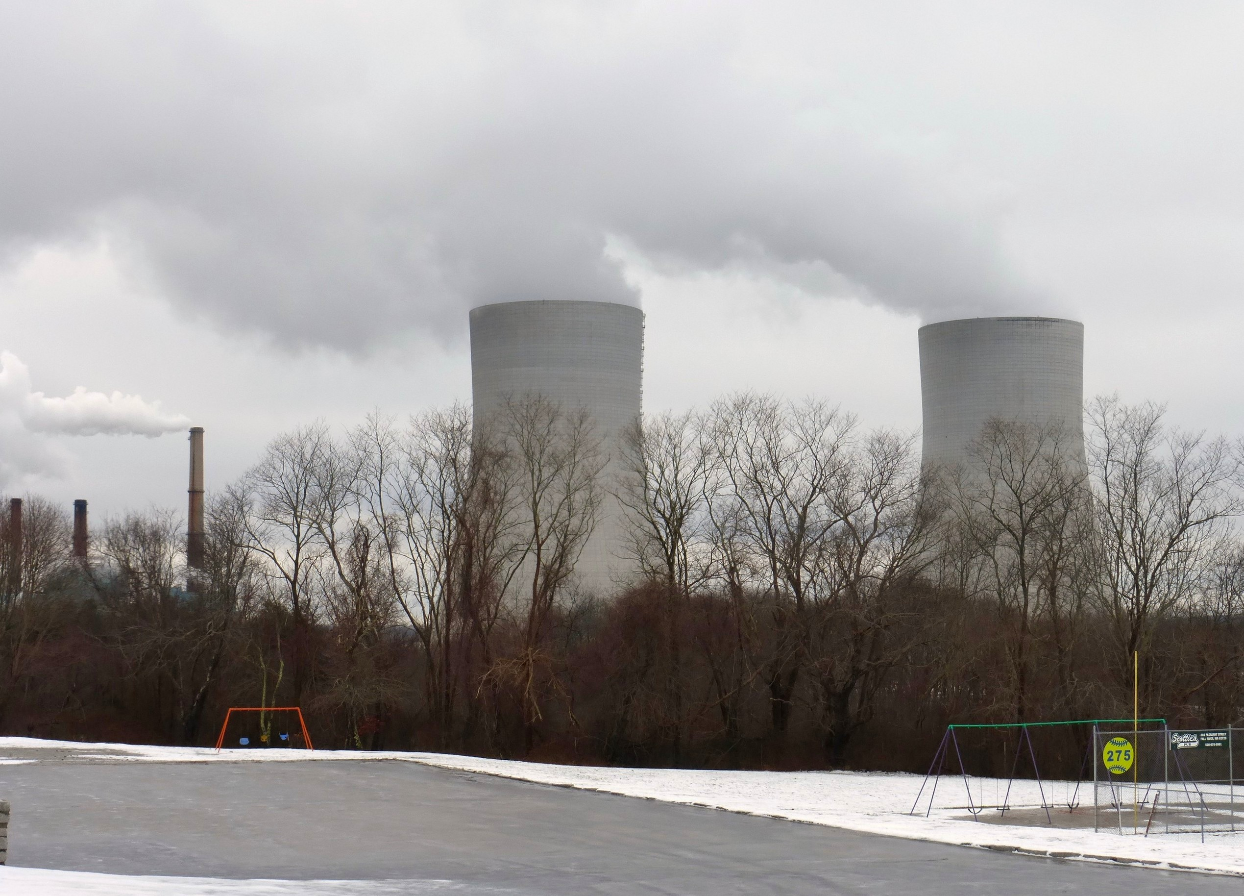 Brayton Point Power Station (Somerset, Massachusetts) on the left behind its 500-foot cooling towers.